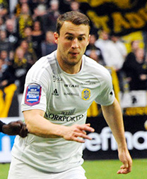 Runar Mar Sigurjonsson